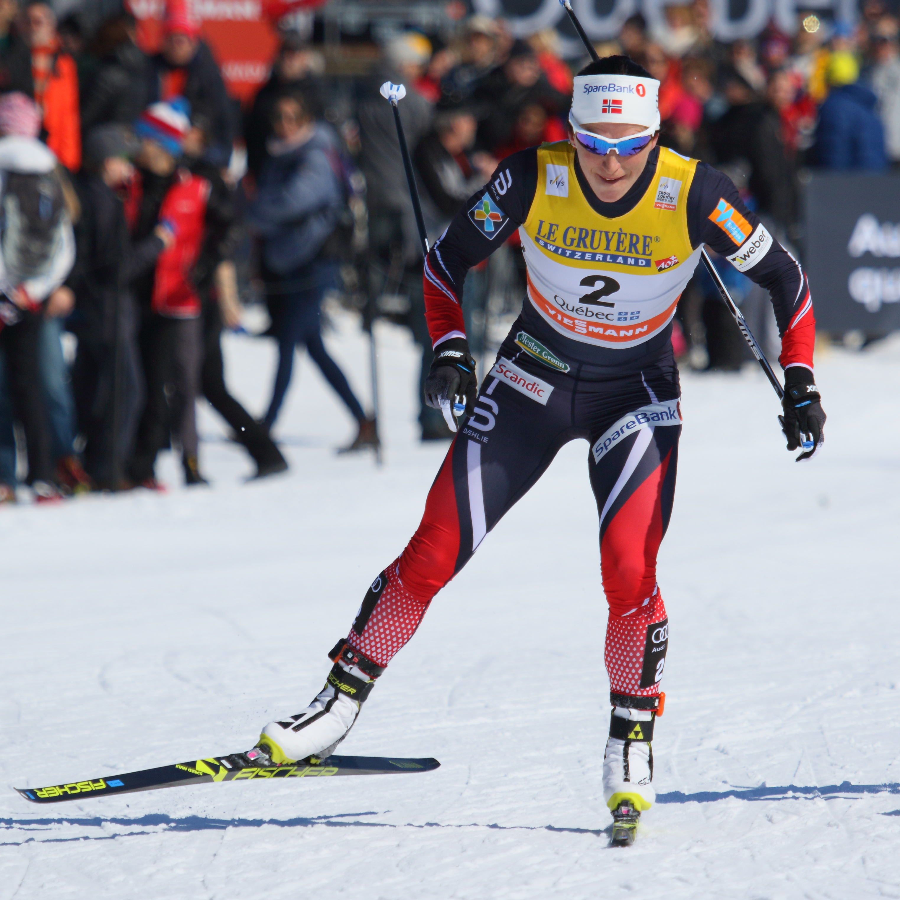 Marit Bjørgen, 2017 Ski Tour Canada, Quebec City.